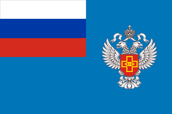 Flag of Federal Service for Surveillance in Healthcare (Roszdravnadzor), Russia